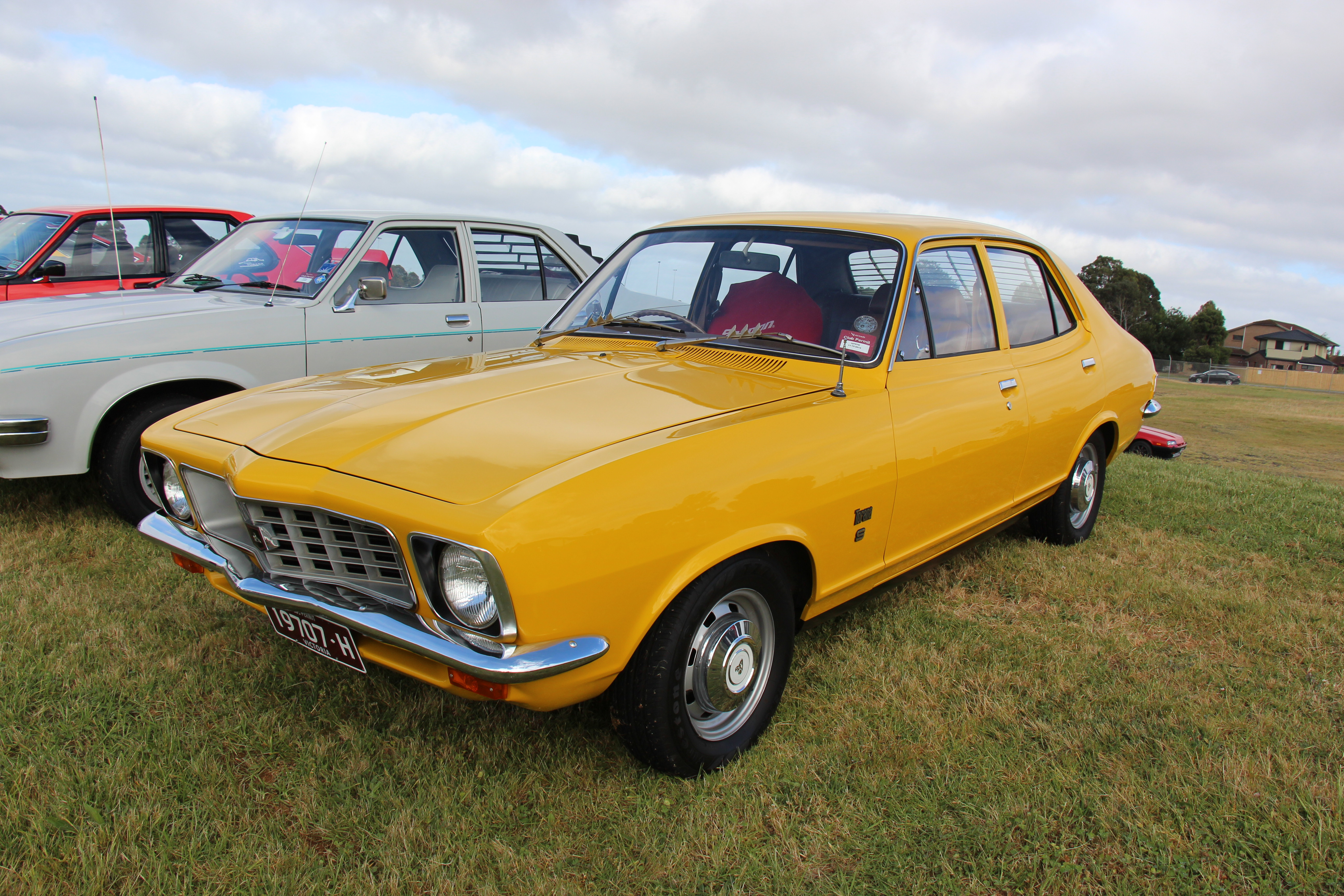 Holden LJ Torana S 4 door